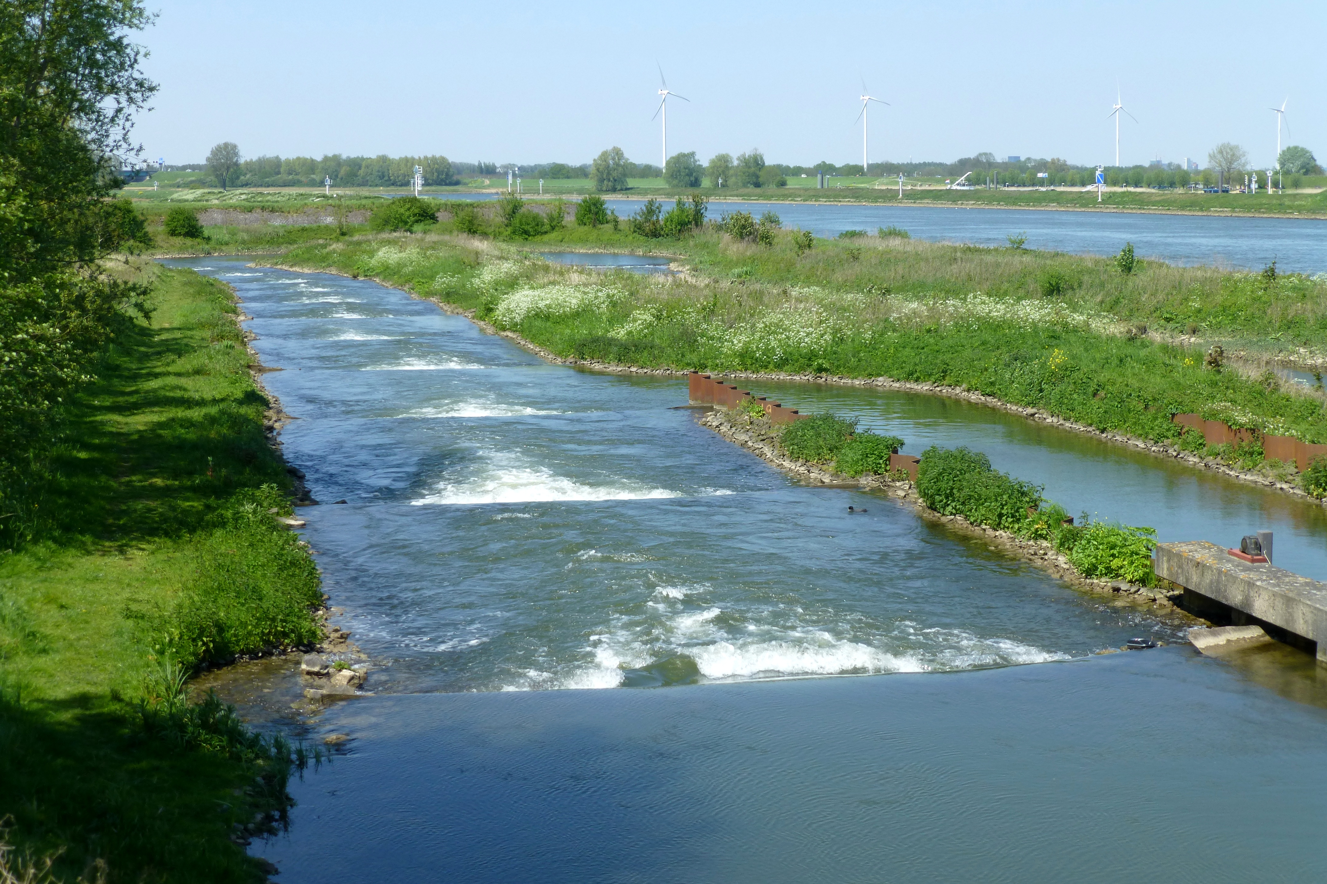 Fishway near the weir in the Lek near Hagestein